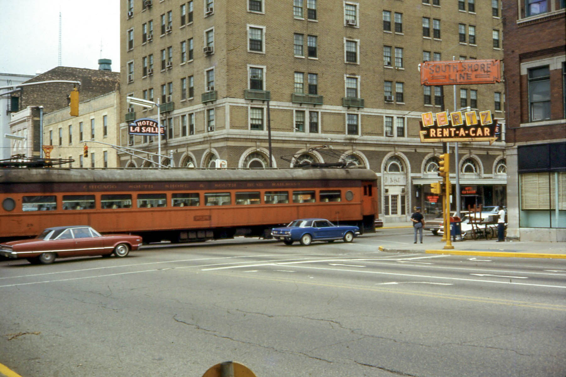 19680810 08 South Shore Line @ LaSalle & Michigan in South Bend